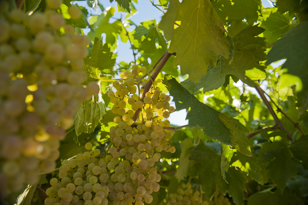 The main grape of Soave Wine